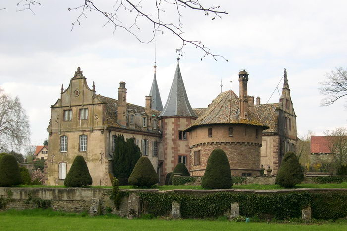 Osthoffen Castle Alsace France- Middle age castle